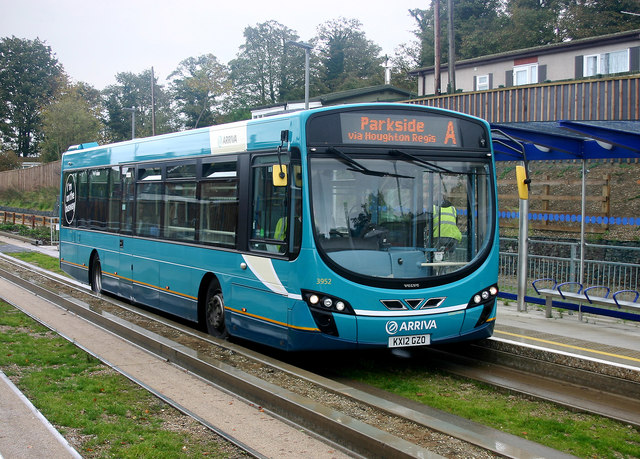 An Arriva the Shires bus at Stanton Road bus stop on the Luton – Dunstable guided busway in Bedfordshire. The bus is a Volvo B7RLE with a Wright Eclipse Urban 2 body, registration mark KX12 GZO, fleet number 3952